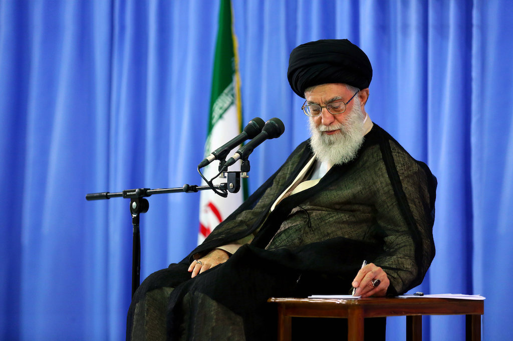 Grand Ayatollah Seyyed Ali Khamenei.